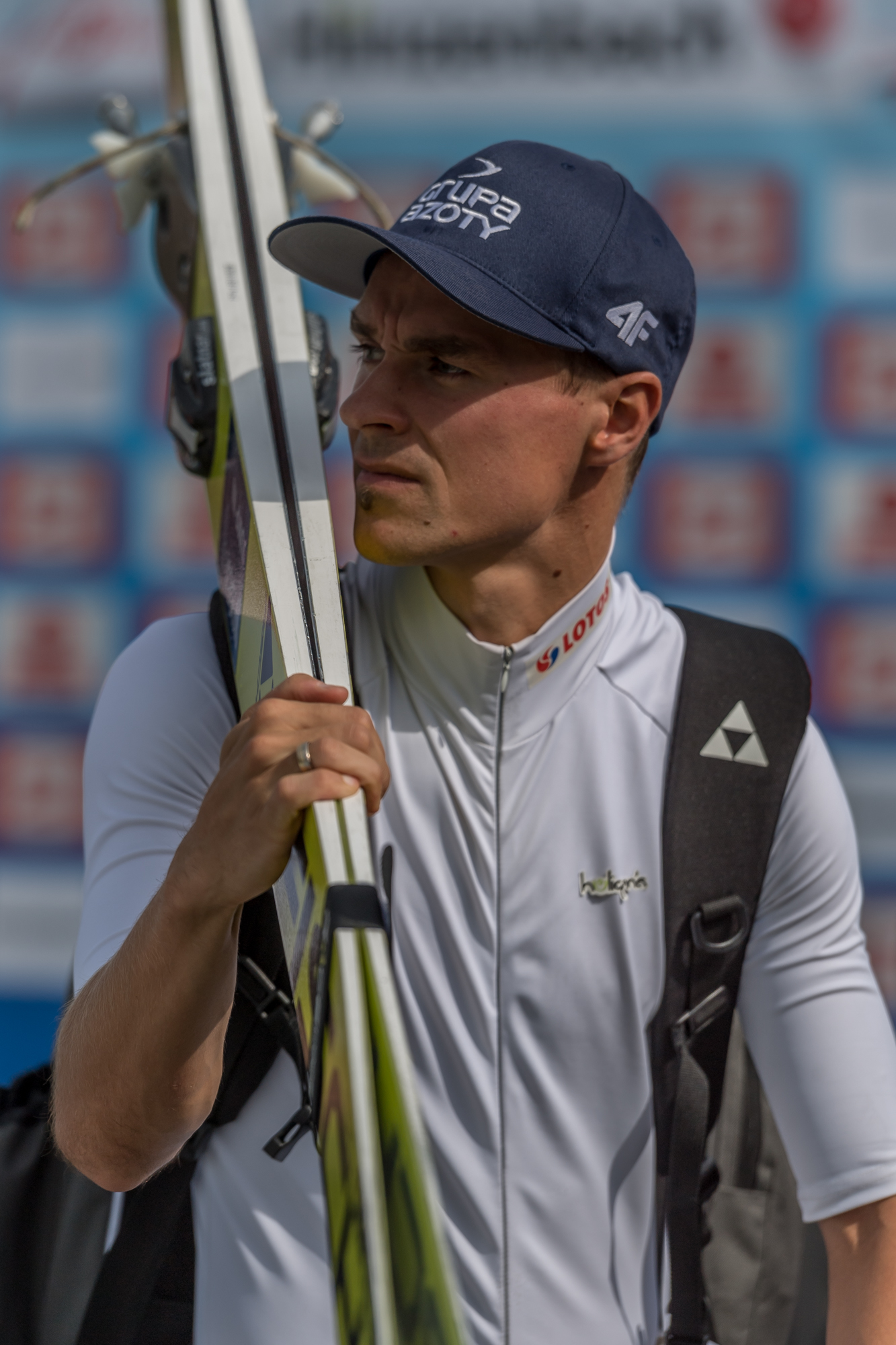 Hinzenbach, Austria, FIS Ski Jumping Grand Prix 2016